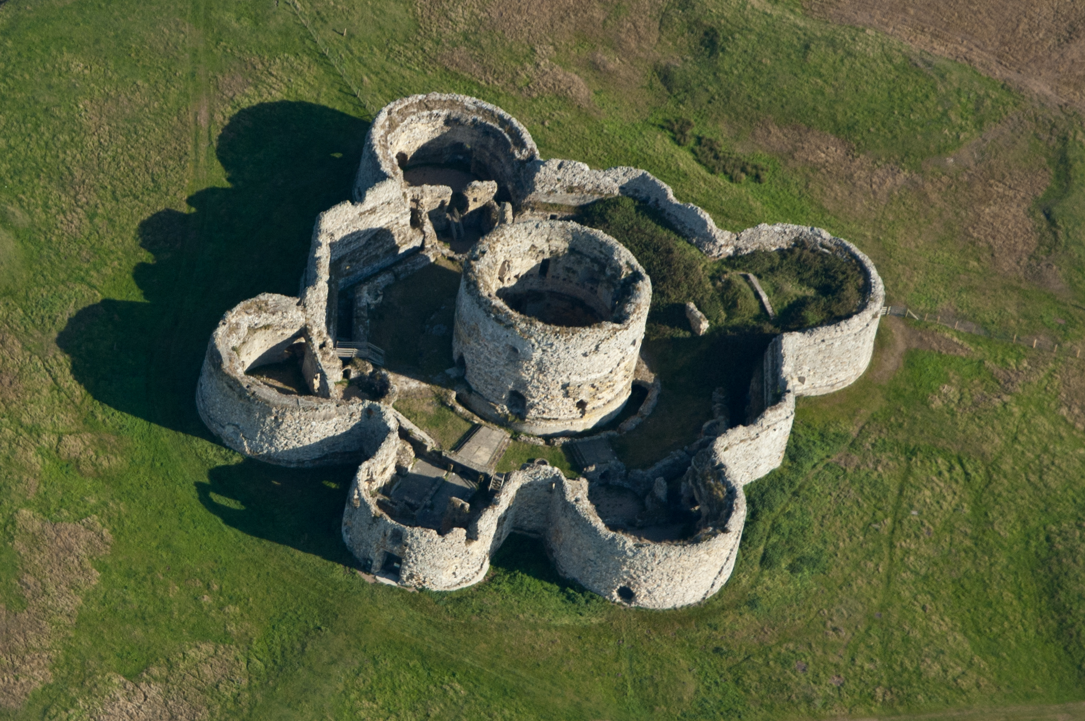 An aerial photograph of Camber Castle.